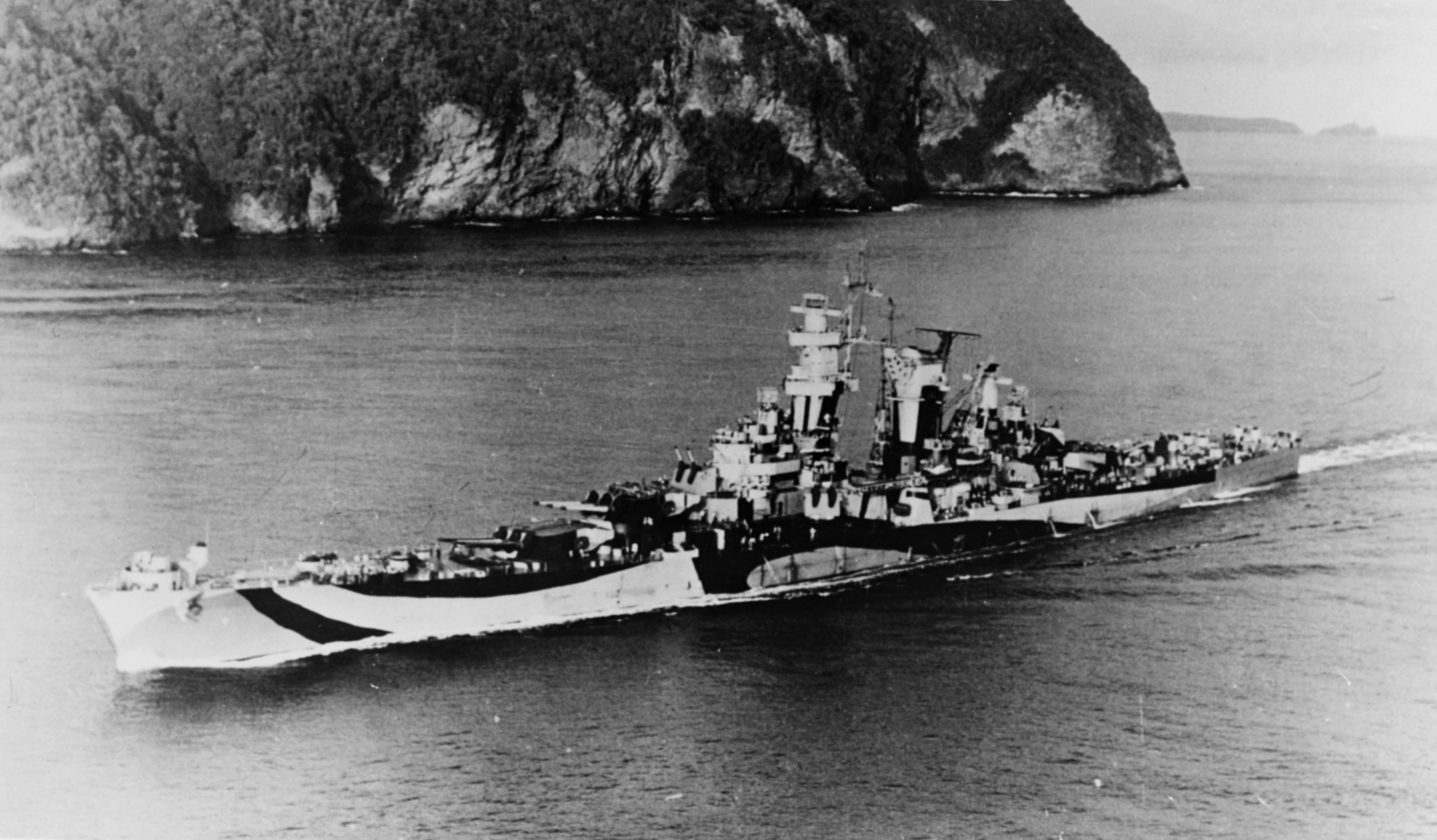 The U.S. Navy large cruiser USS Guam (CB-2) underway off Trinidad on 13 November 1944 during shakedown training.